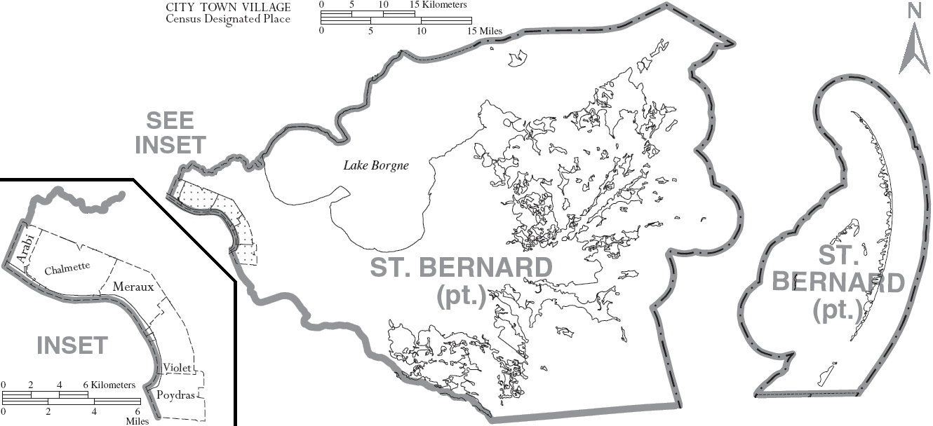 Map of St. Bernard Parish, Louisiana, United States with municipal boundaries